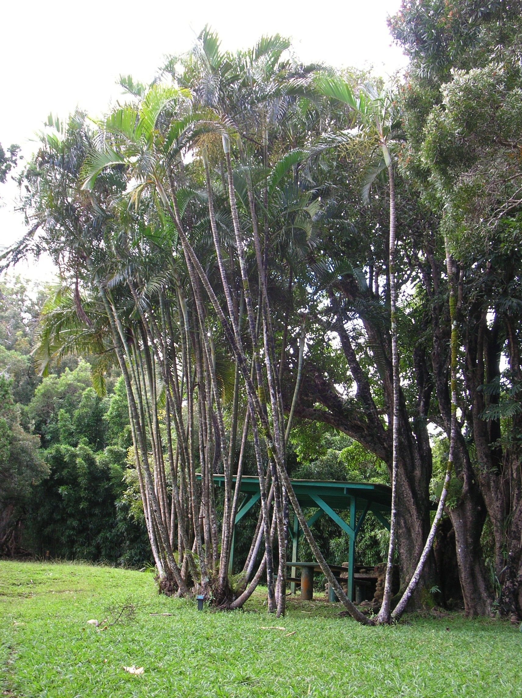 Chrysalidocarpus lutescens (habit). Location: Maui, Waikamoi trail